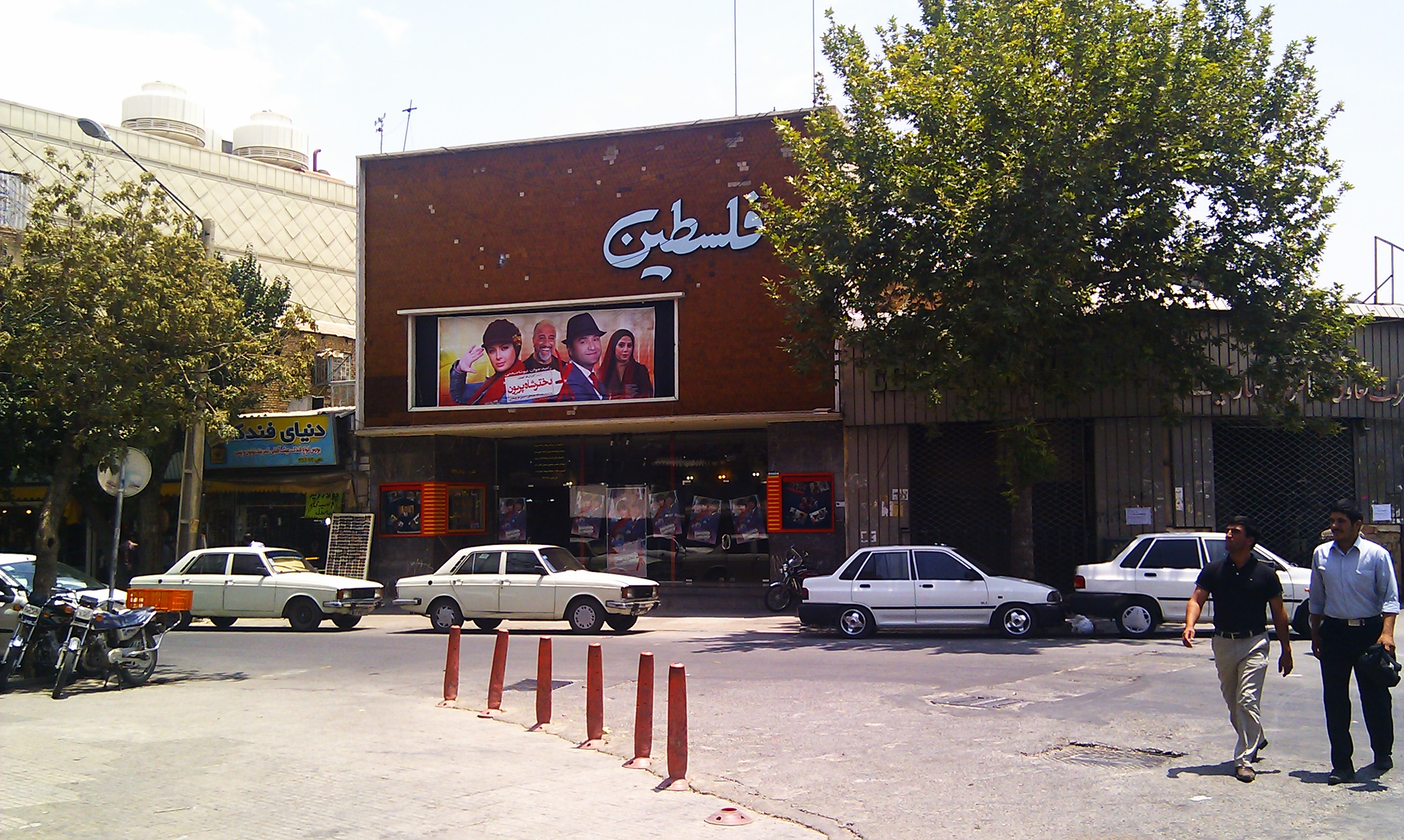 cinema in shiraz